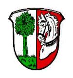 Coat of Arms of Kist